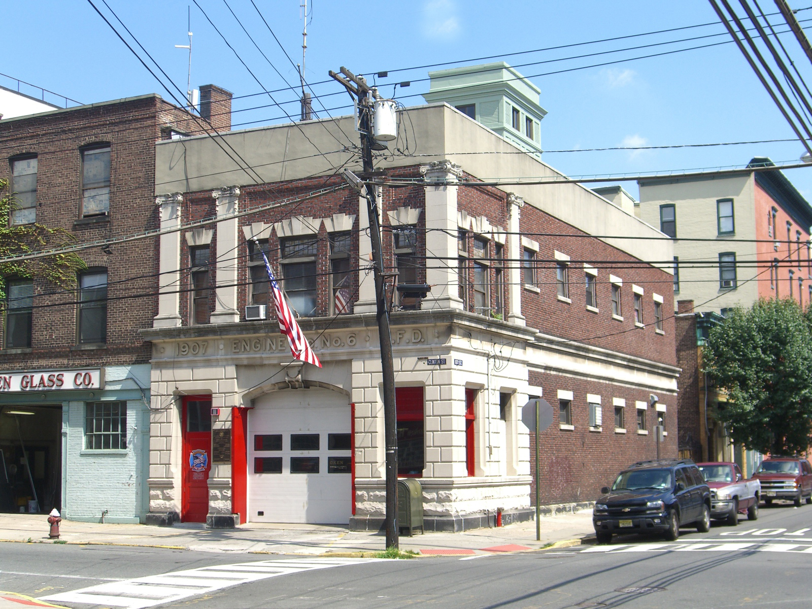 Engine No. 6 station on the corner of Clinton Street and 8th Street in Hoboken, New Jersey.